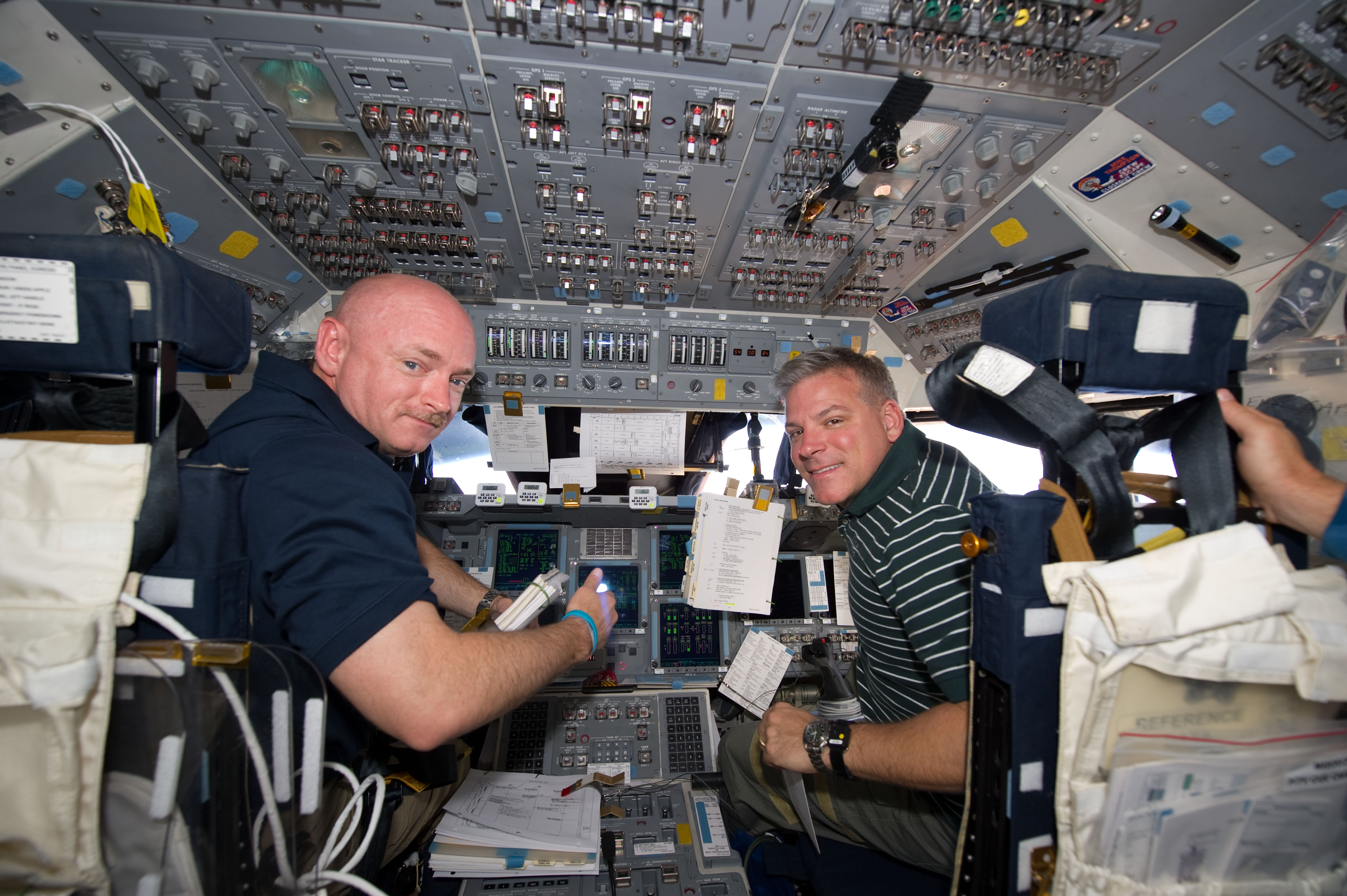 NASA astronauts Mark Kelly (left), STS-134 commander; and Greg H. Johnson, pilot, occupy their respective stations on the forward flight deck of space shuttle Endeavour during rendezvous and docking operations with the International Space Station on flight day three.